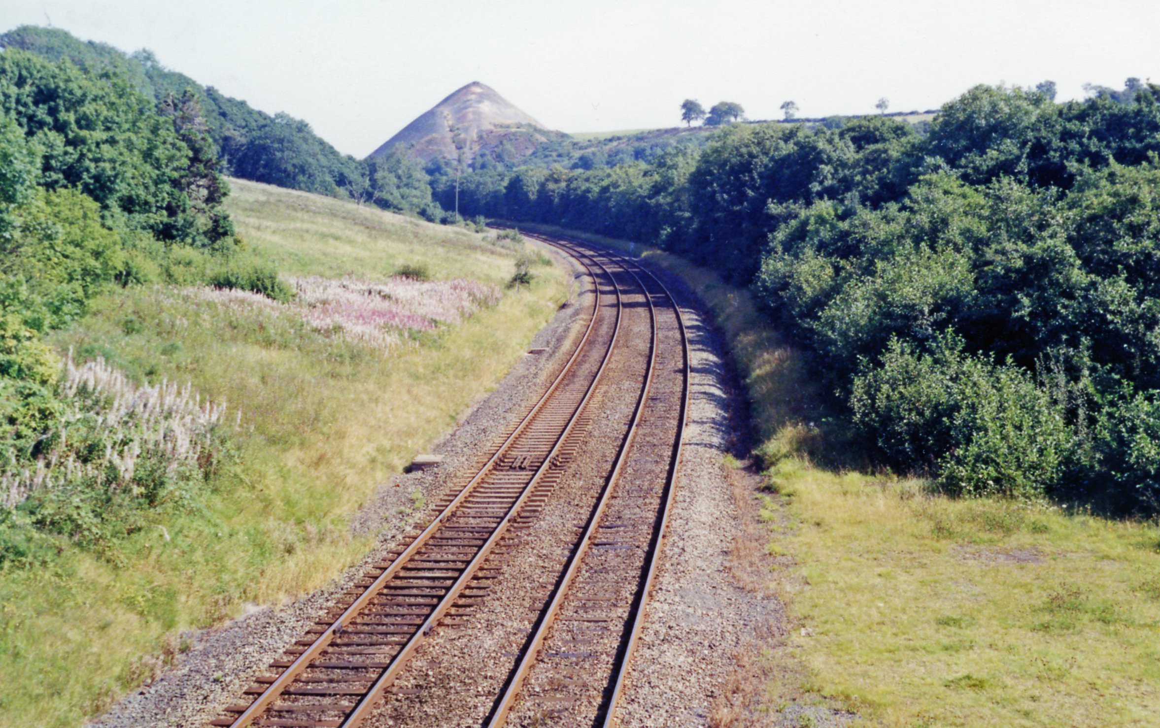 Site of Dearham Bridge station, 1991. View eastward, towards Maryport and Carlisle: ex-Maryport & Carlisle Railway, Carlisle - Maryport - (Workington - Whitehaven - Barrow-in-Furness - Carnforth) secondary main line; the station was closed to passengers 5/6/50, to goods 15/10/51. (Cf. NY0637 : The Carlisle to Barrow Railway, showing that the prominent spoil-tip has been removed since 1991).